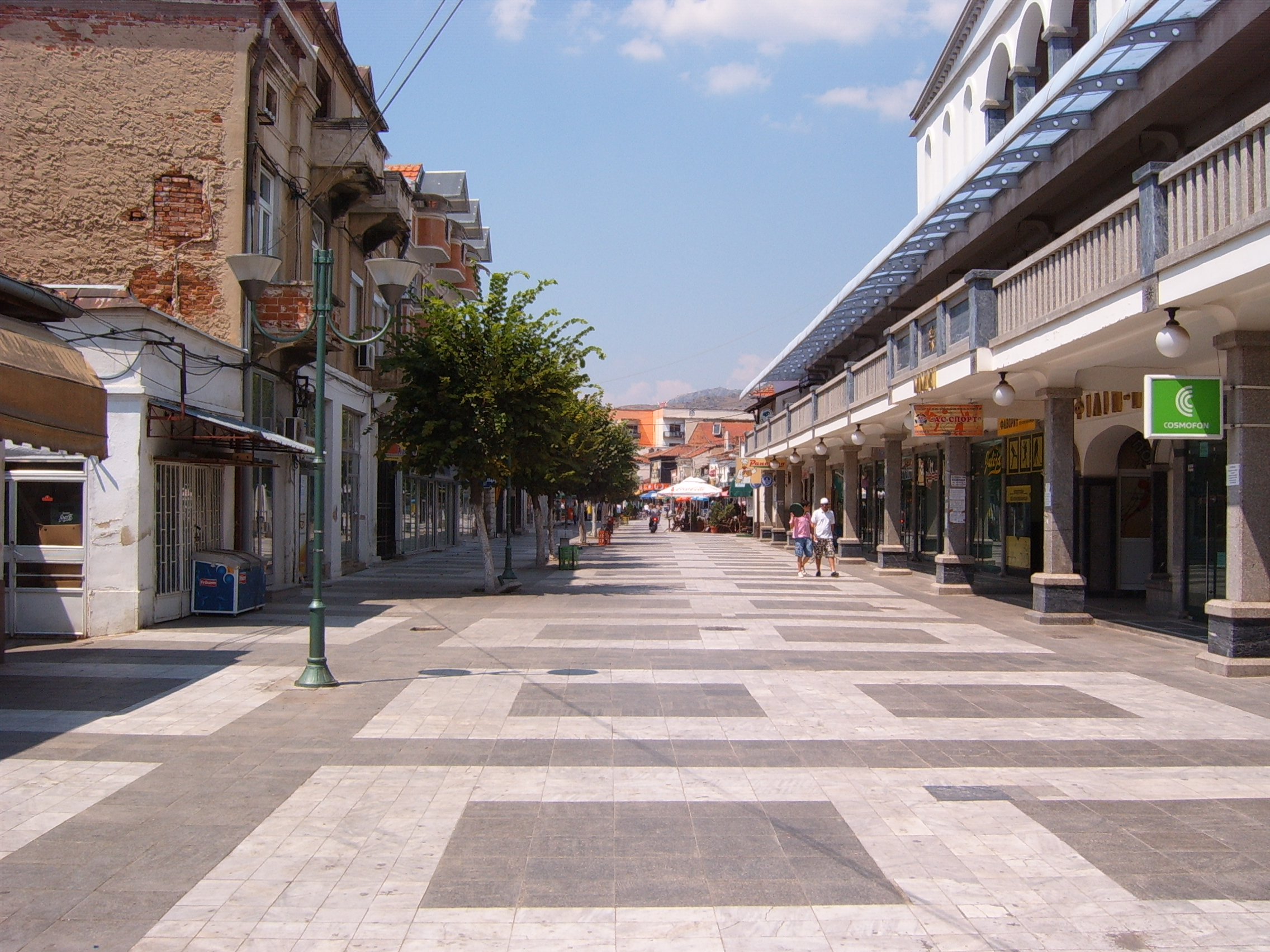 Pedestrian street in Prilep